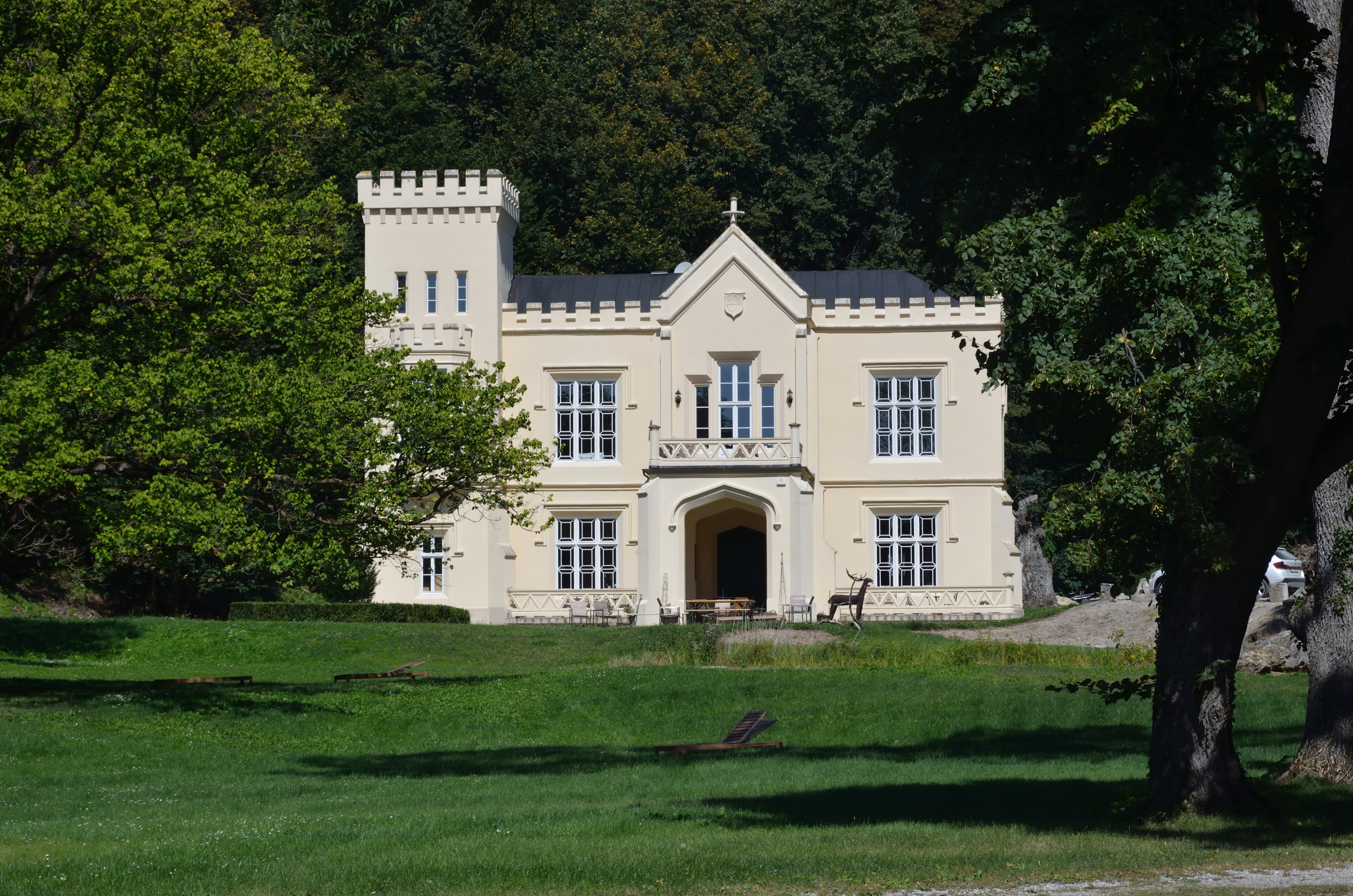 The ruins and palace of Merkenstein in Gainfarn, municipality of Bad Vöslau, Lower Austria, is protected as a cultural heritage monument.